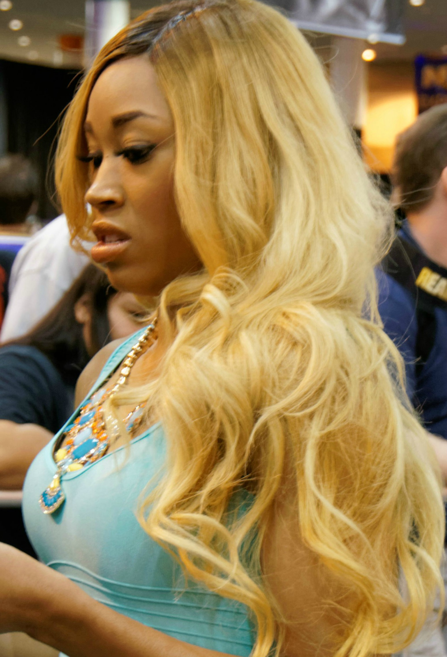 Cameron during the WrestleMania Axxess in April 2014.